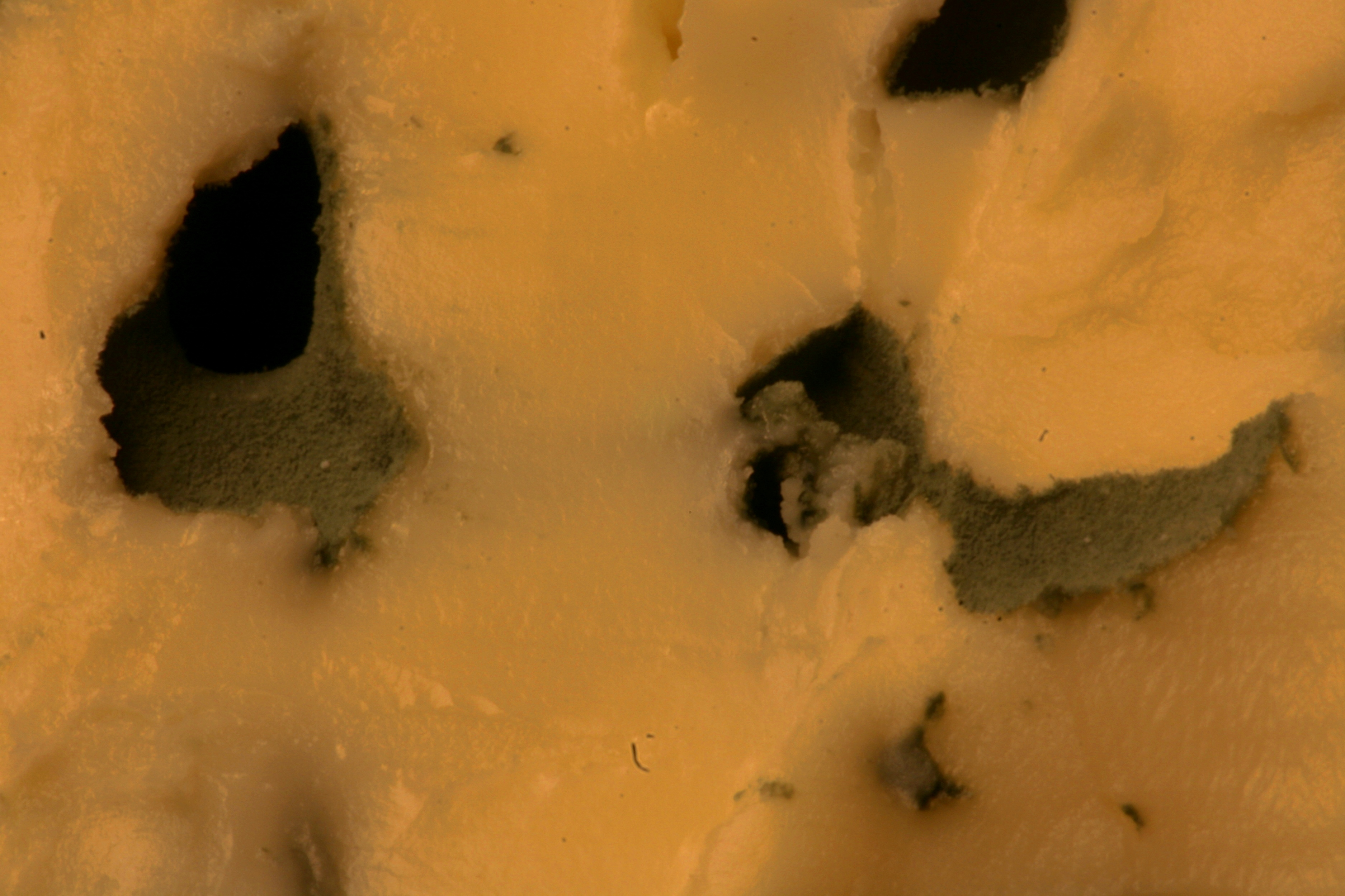 close-up of Penicillium roqueforti on a roqufort cheese